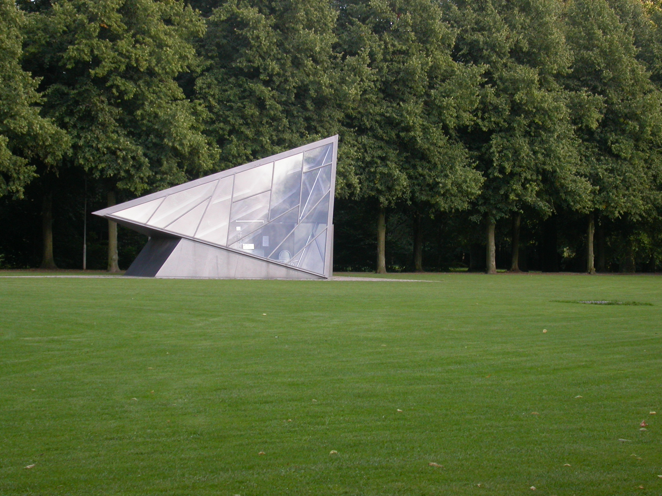 The entrance to the underground Cisterne museum of contemporary glass art at Søndermakrken in Copenhagen, Denmark